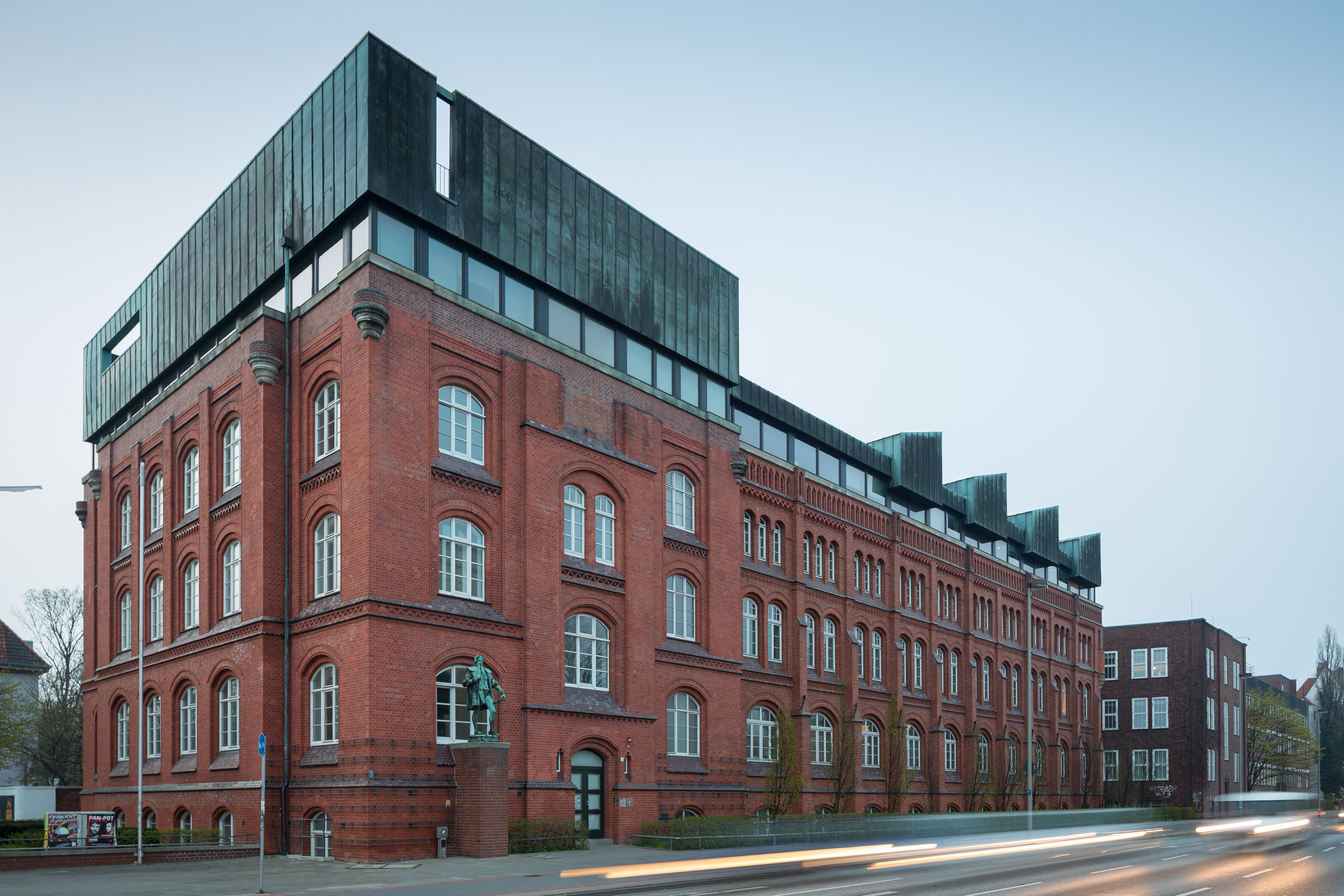 Former printing plant of J. C. Koenig and Ebhard Company. The building is located at Schlosswender Strasse in Nordstadt district of Hanover, Germany. Today it is used by the Hanover university.